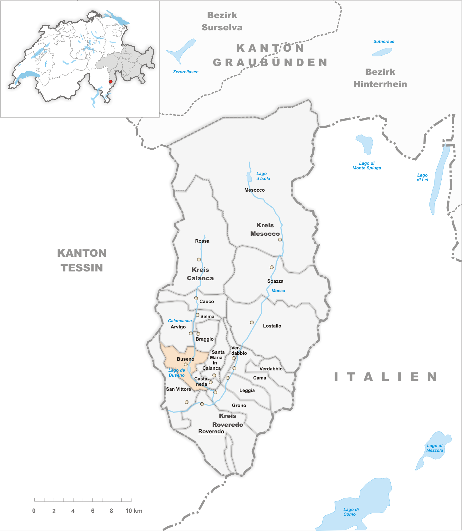 Municipality Buseno